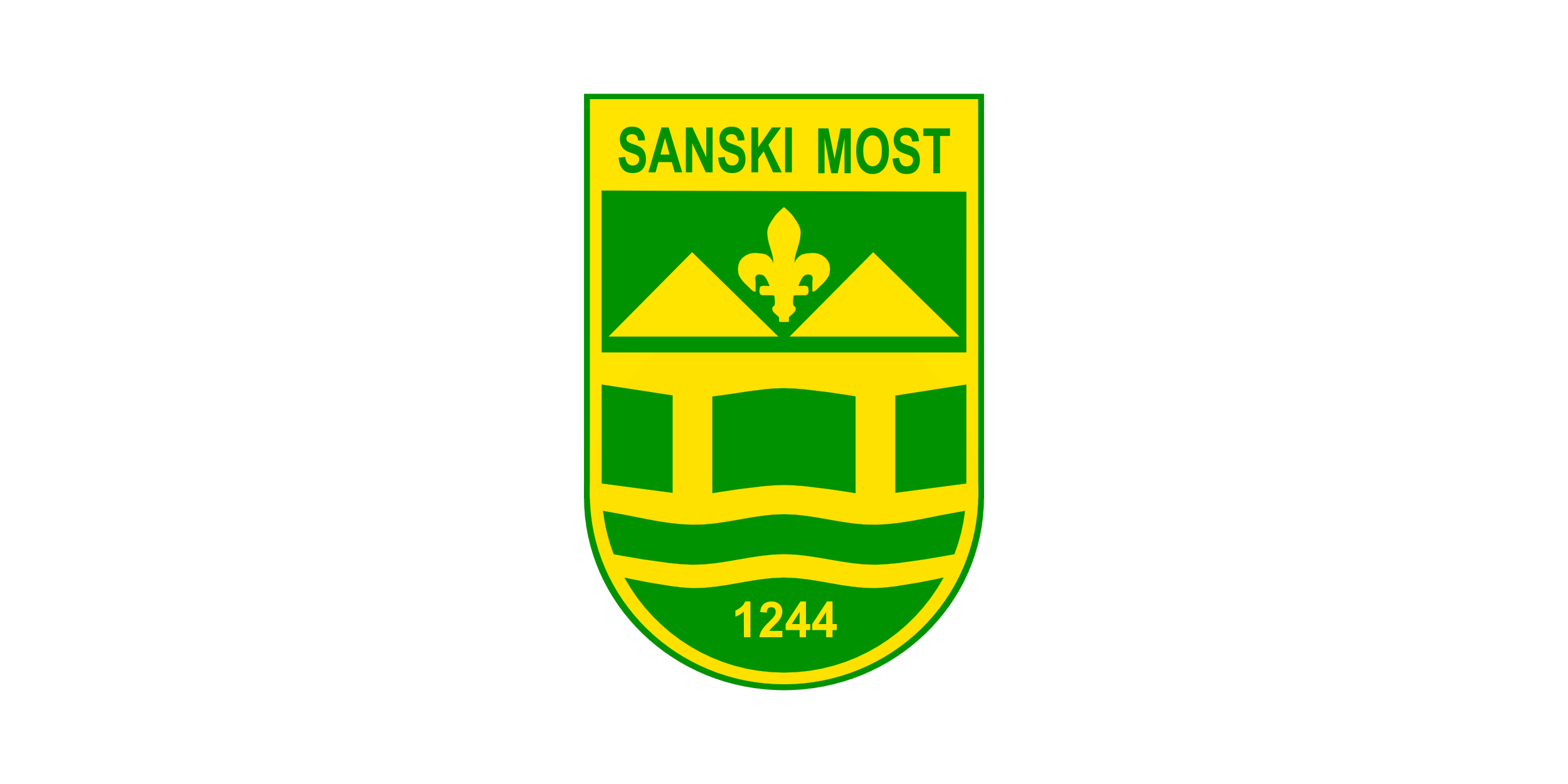 Flag of Sanski Most